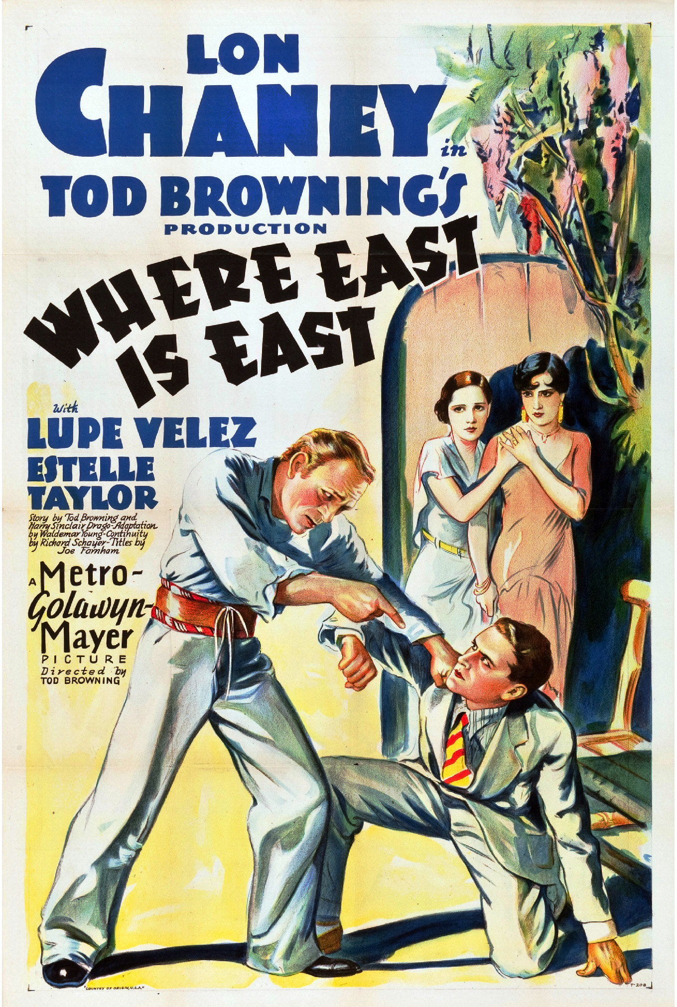 Poster for the American drama film Where East is East (1929). There are no copyright marks on the poster. At bottom left is Country of Origin USA. At bottom right is T208.